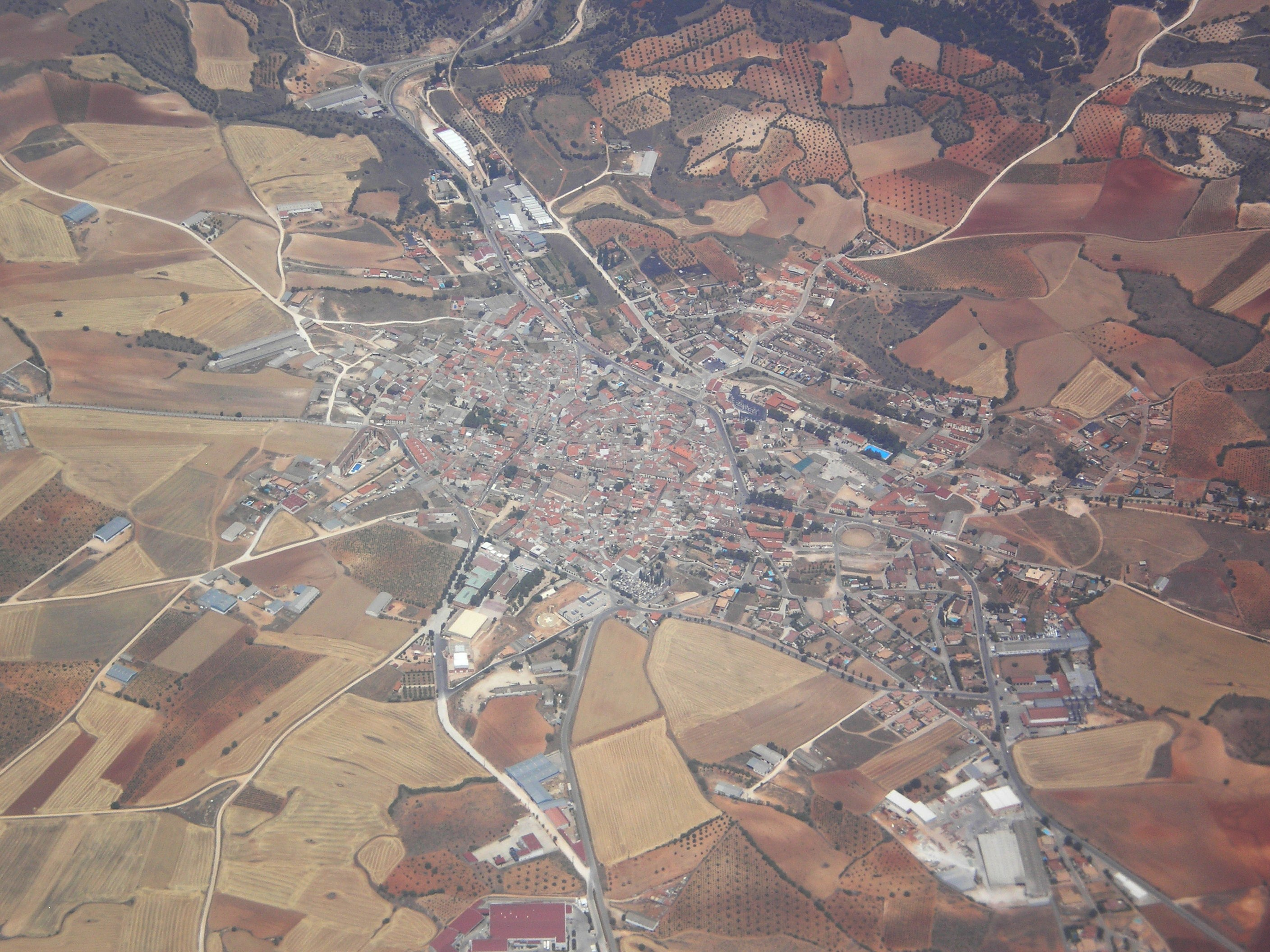 Mondéjar (Guadalajara, Spain) viewed from the air.